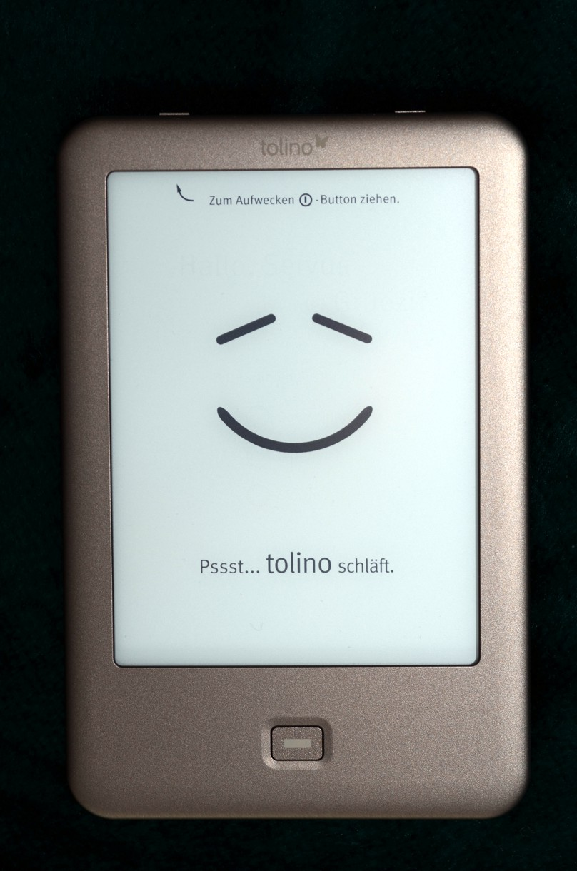 tolino e-book reader